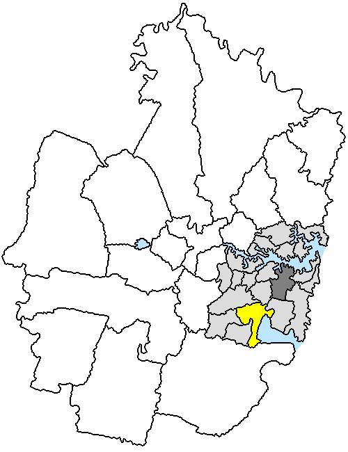 Map of Sydney/New South Wales/Australia, LGA of Rockdale City highlighted